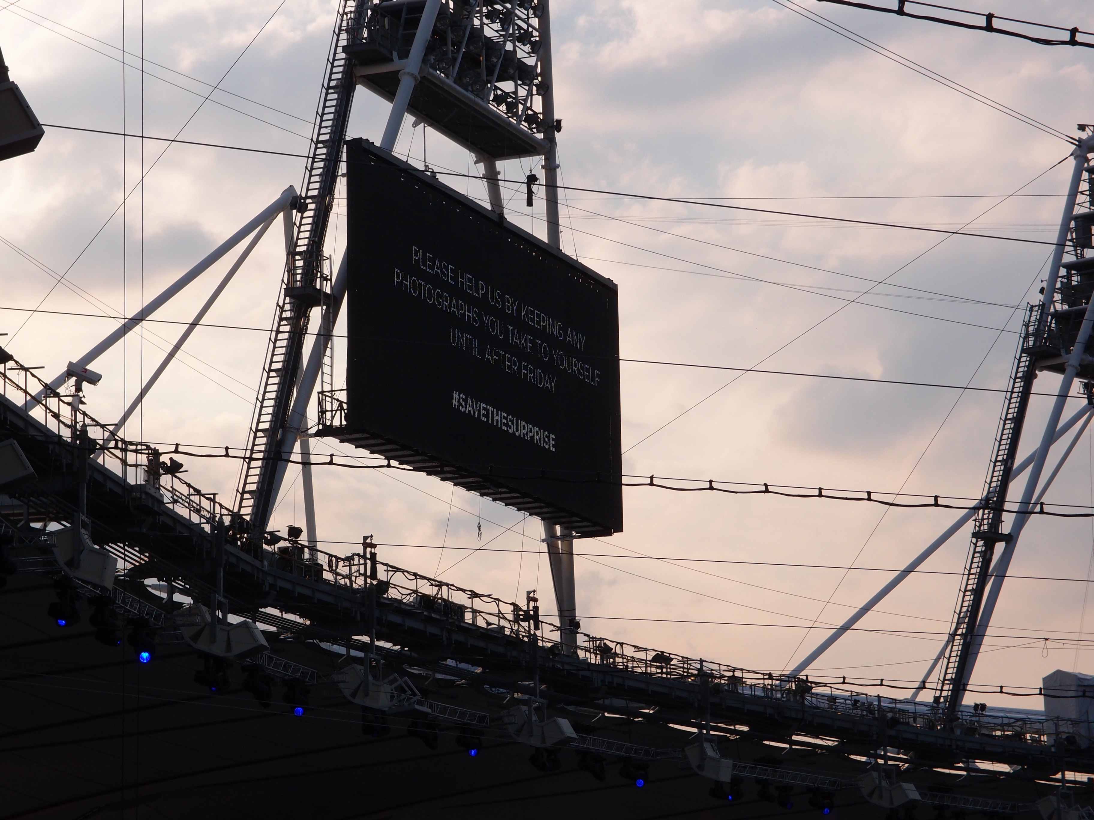 2012 Summer Olympics opening ceremony